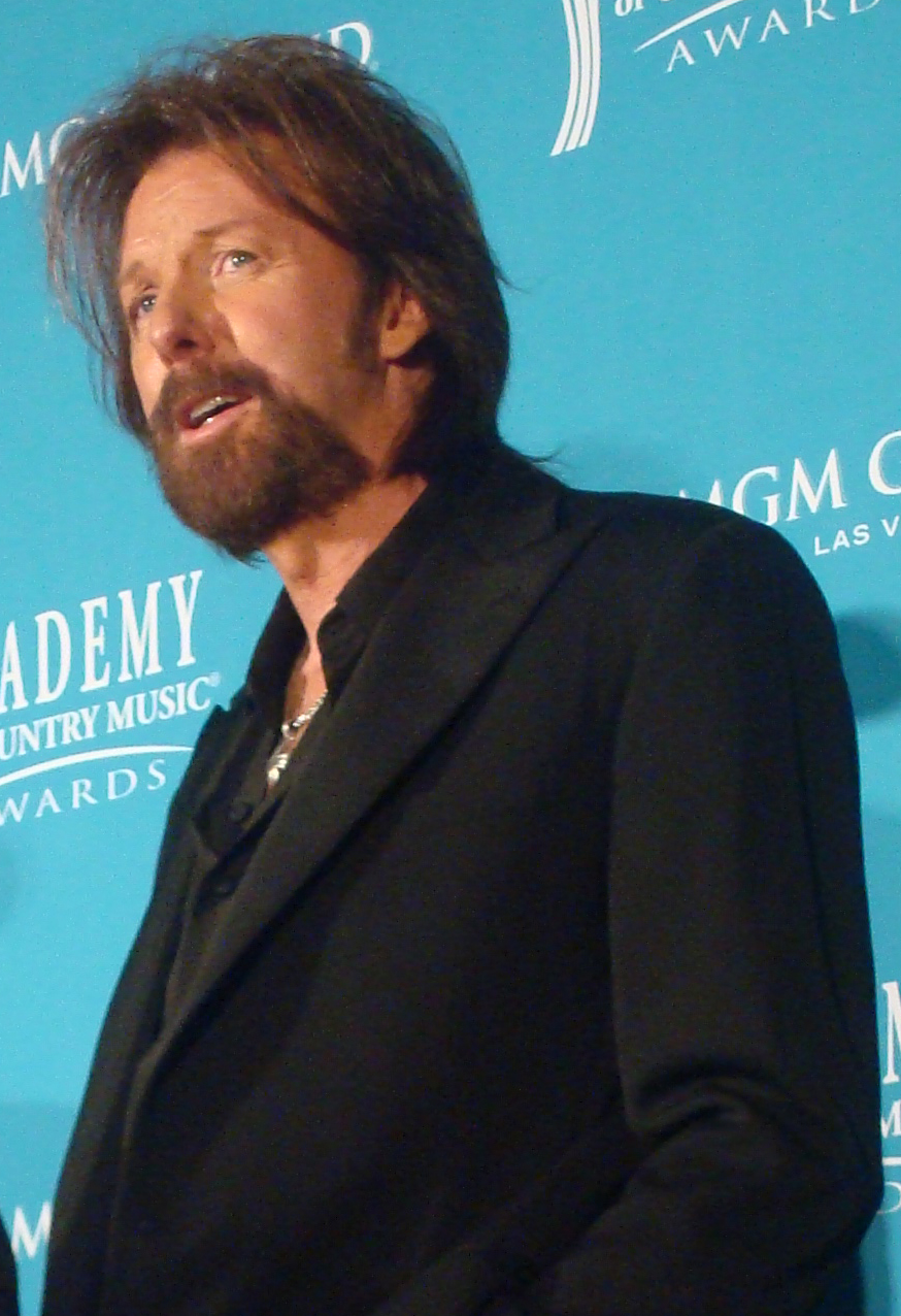 Ronnie Dunn at the 45th Annual Academy of Country Music Awards.